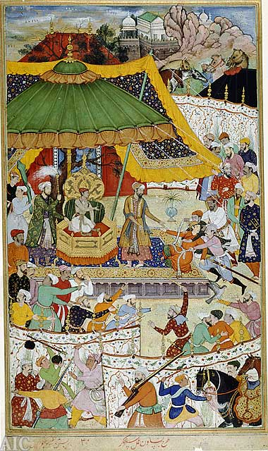 The court of Akbar, an illustration from Akbarnama. The spiral composition, with horses defining the outer edges, skillfully draws the viewer's attention to the young emperor (age 13). He is portrayed in a powerful central position from which he exercises his first imperial act: the arrest of an unruly courtier, who was once a favorite of Akbar's father.